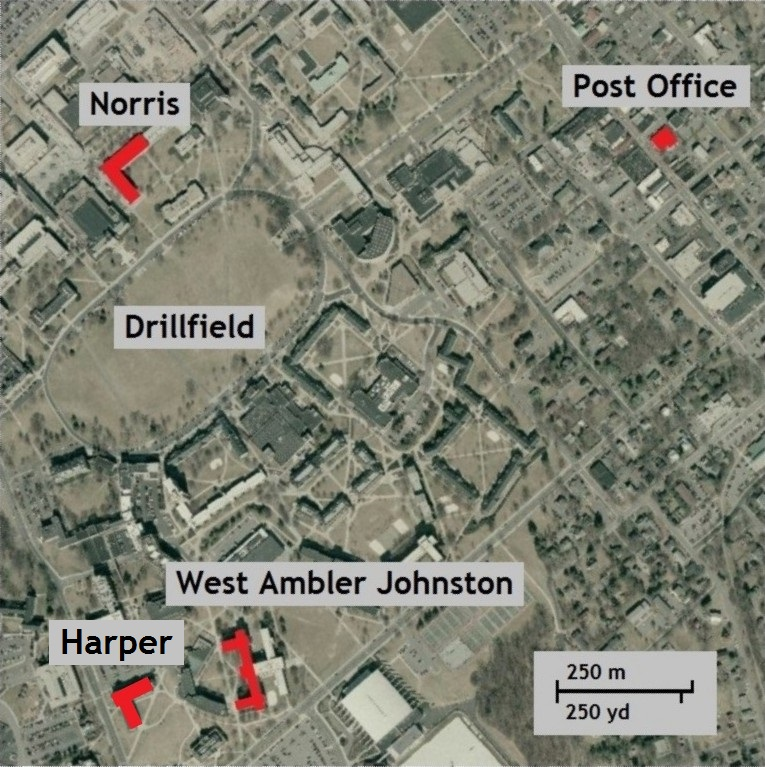 Map of Virginia Tech campus and downtown Blacksburg, VA, with Norris Hall, West Ambler Johnston Hall, and the U.S. Post Office shown in red, with labels. Base map from TerraServer (USGS).